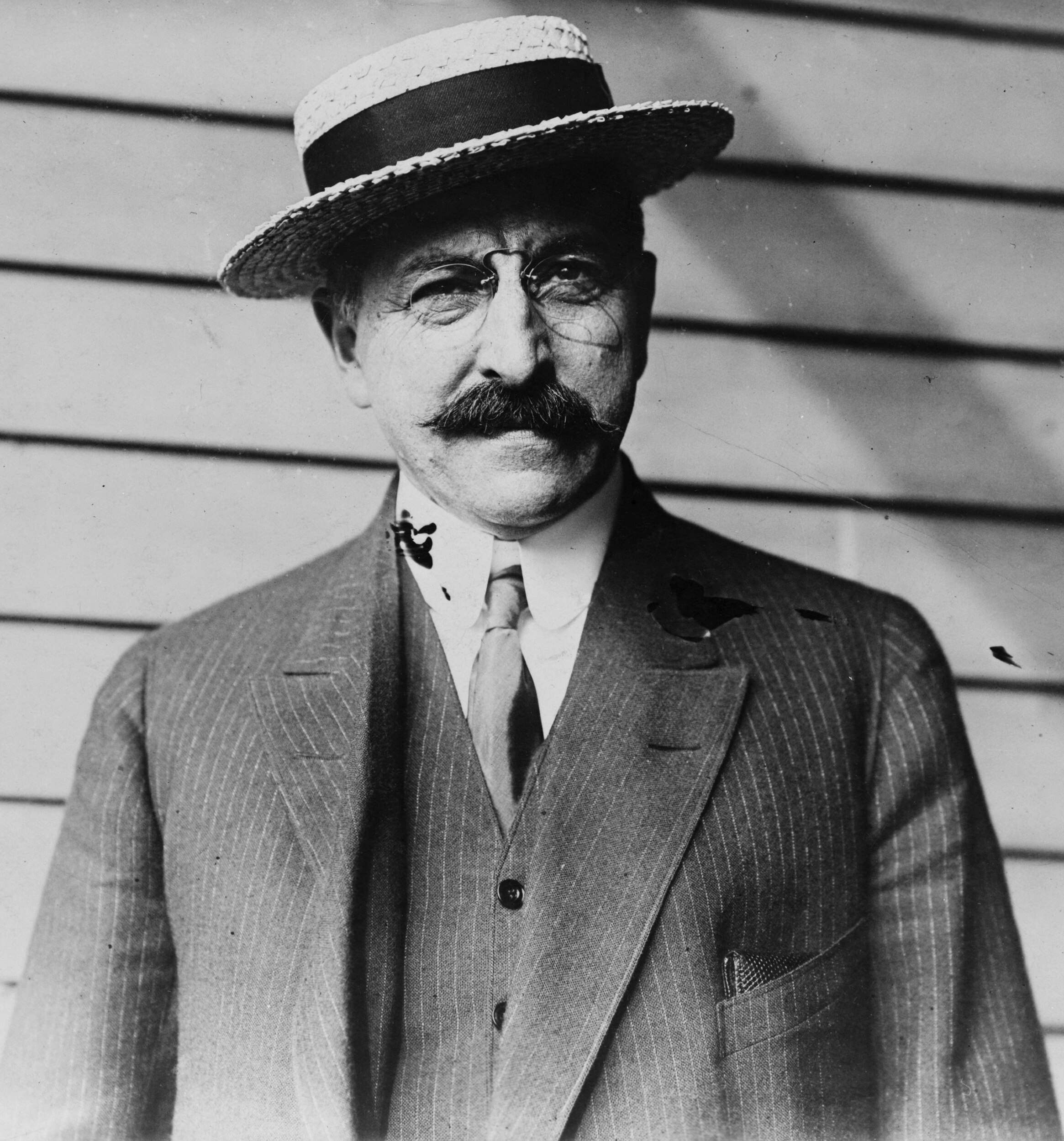 Title: Otto Eidlitz, half-length portrait, standing, facing front Abstract/medium: 1 photographic print.